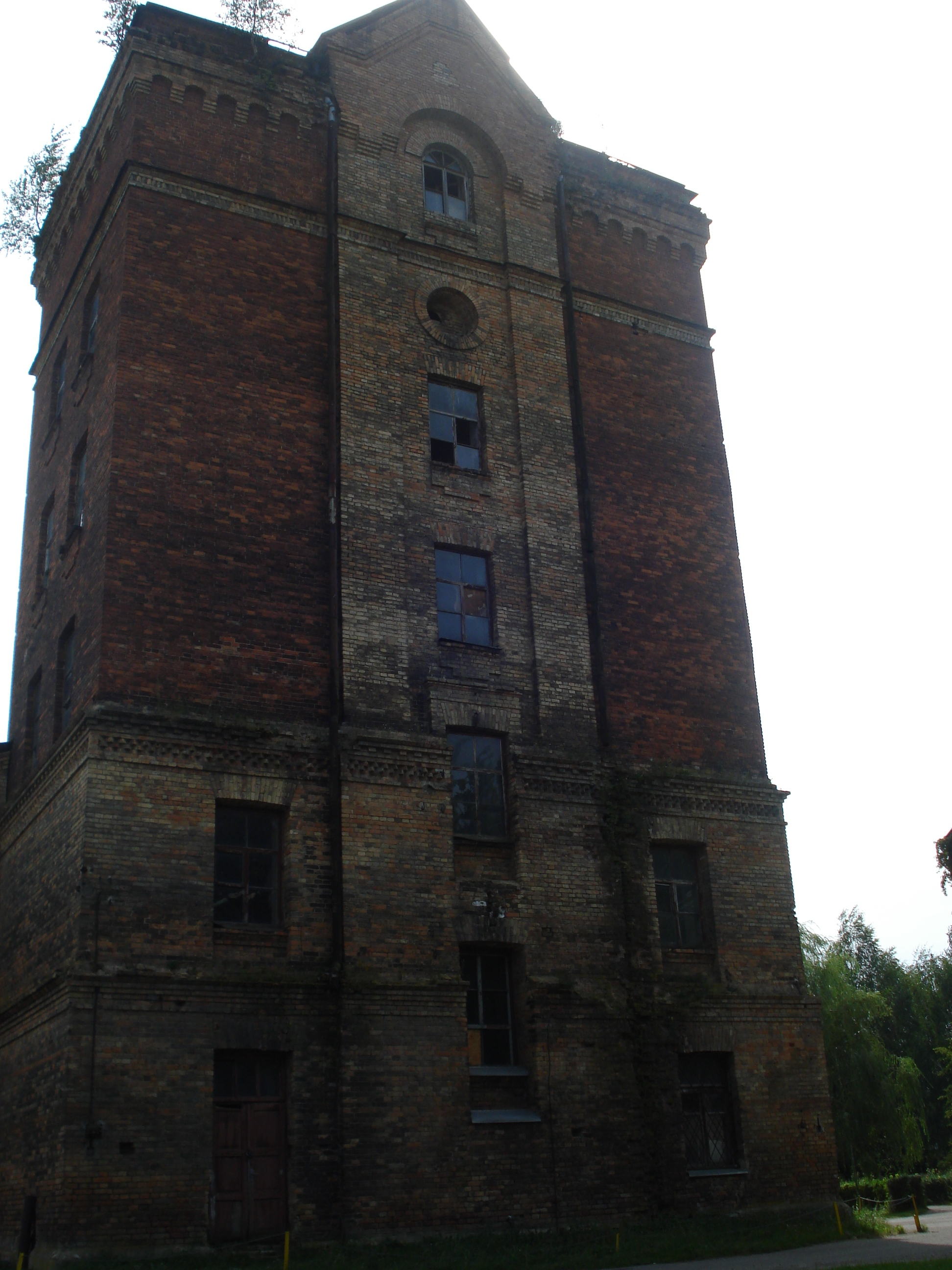 The Republican Vilnius Psychiatric Hospital in Naujoji Vilnia (Parko g. 15), is one of the largest health facilities in Lithuania; build in 1902, official opening on 21 May 1903. Information board